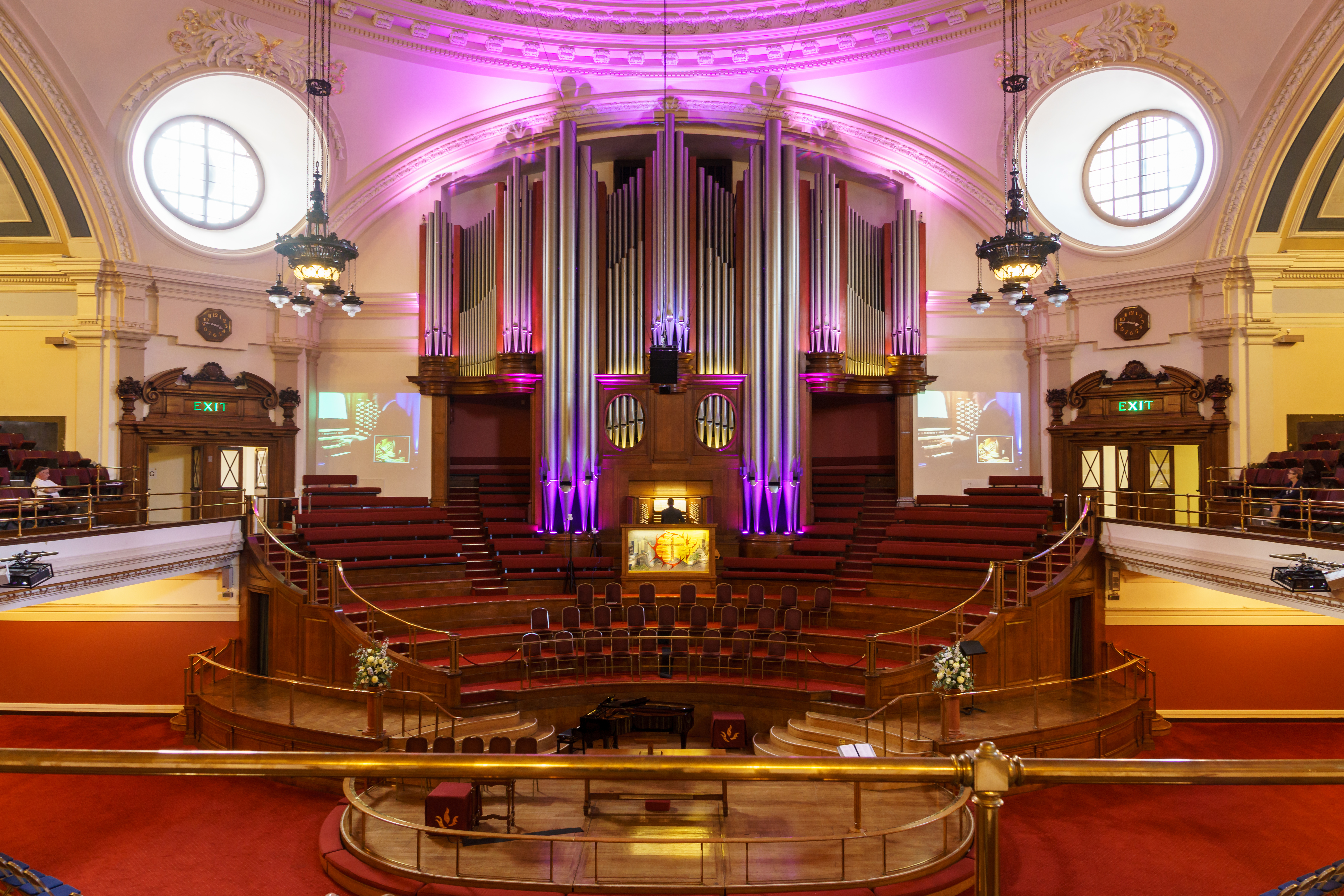 Methodist Central Hall Westminster. The Great Hall with the pipe organ. Wikidata has entry Q81473 with data related to this building.